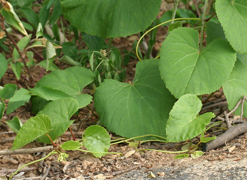 Cissus repanda (syn. Vitis repanda, Vitis pallida)- Pani Bel, Wavy-leaved Cissus • Hindi: पानी बेल Pani bel, Dekarbela • Manipuri: খোংঙৌযেন Khongngouyen • Marathi: गेंदळ Gendal • Telugu: Gummadithige, Nelaboddu, Pasupugodanithegani • Assamese: Medmedia-lop- in Keesara, Rangareddy district, Andhra Pradesh, India.